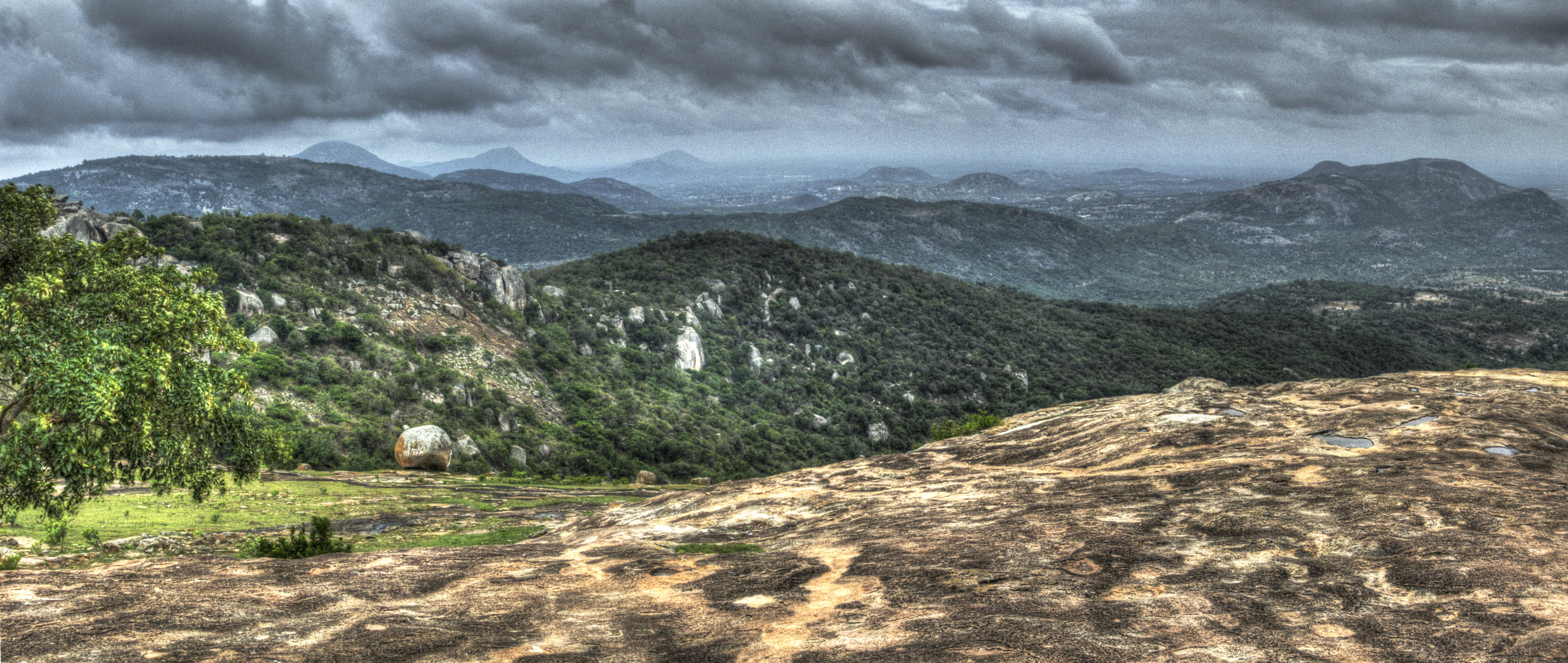 Tonemapped HDR panorama from Horsley Hills, Andhra Pradesh